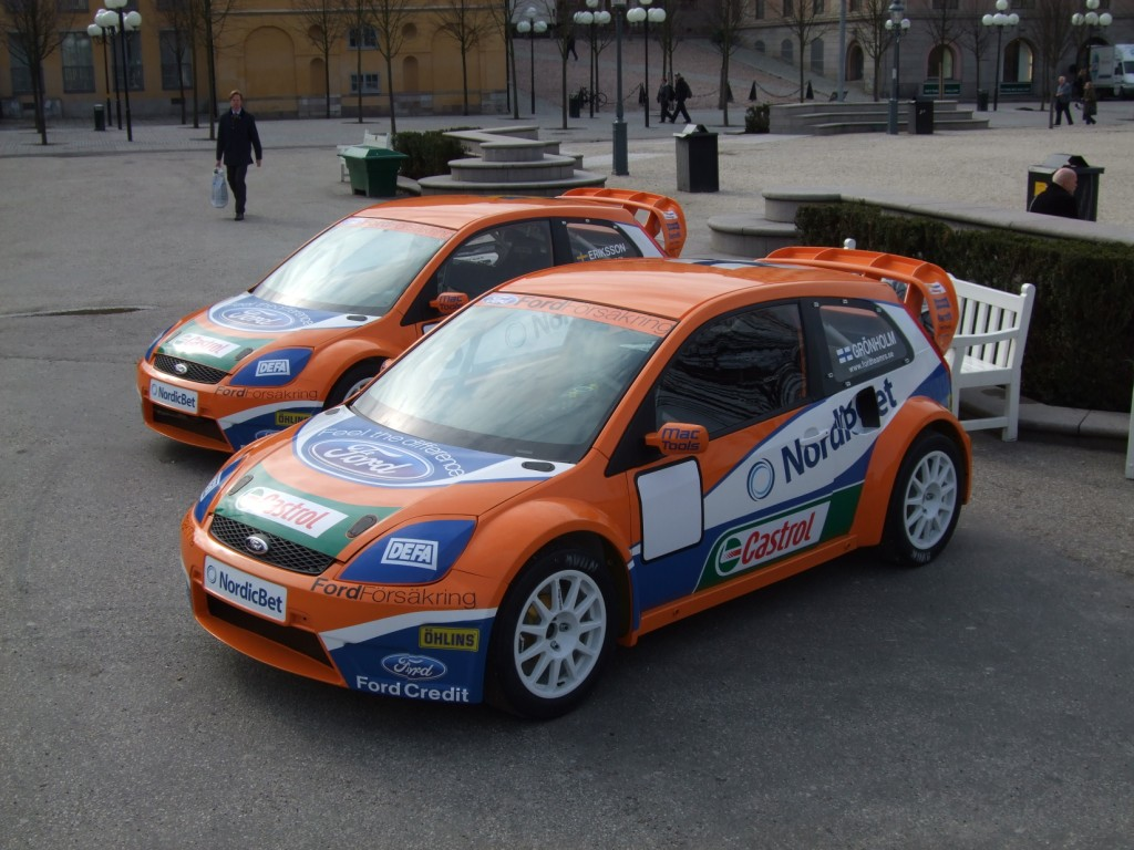 The 2008 Ford Fiesta Mk6 ST ERC (4WD, 560bhp, 800Nm) of Marcus Grönholm and Andréas Eriksson for rallycross pictured at an MSE press conference in Stockholm.